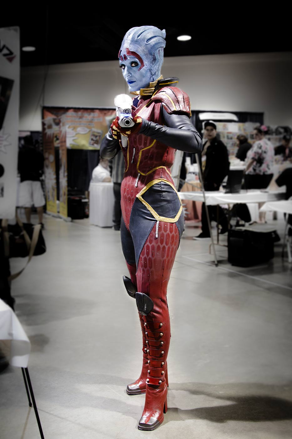 Rana McAnear who appears as Samara in Bioware's Mass Effect series